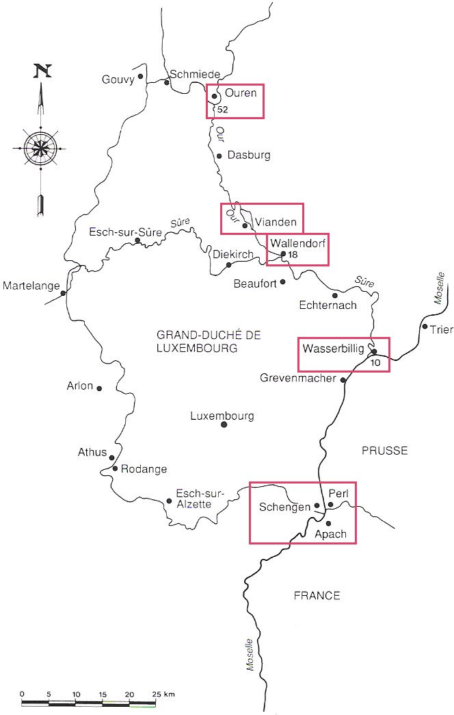 Map of the Luxembourgish borders with detailed German border.